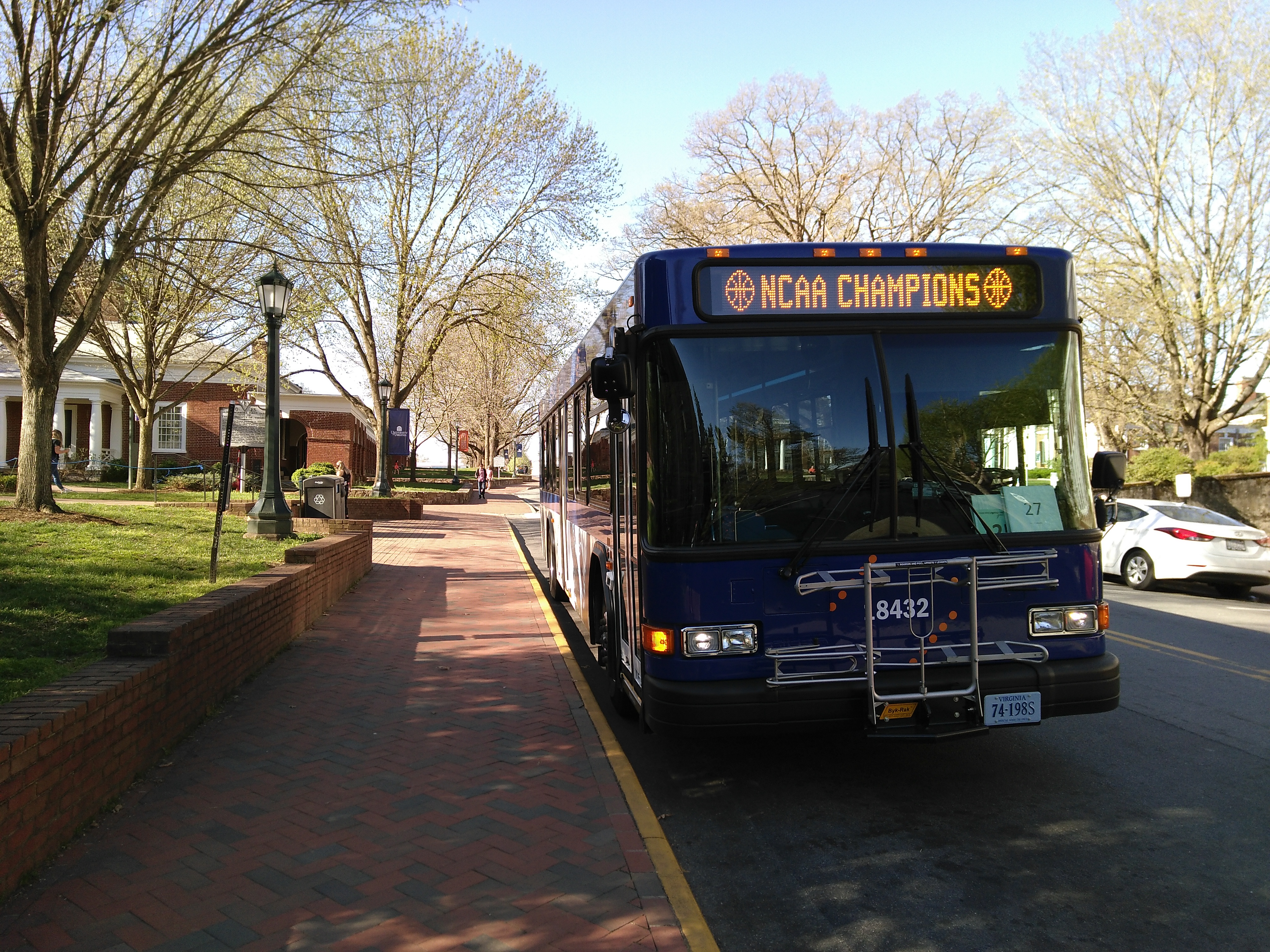 Northline Express (NLX) bus of the University Transit Service of the University of Virginia, with "NCAA CHAMPIONS" message celebrating the win of the 2019 NCAA Division I Men's Basketball Championship Game by the University's team.